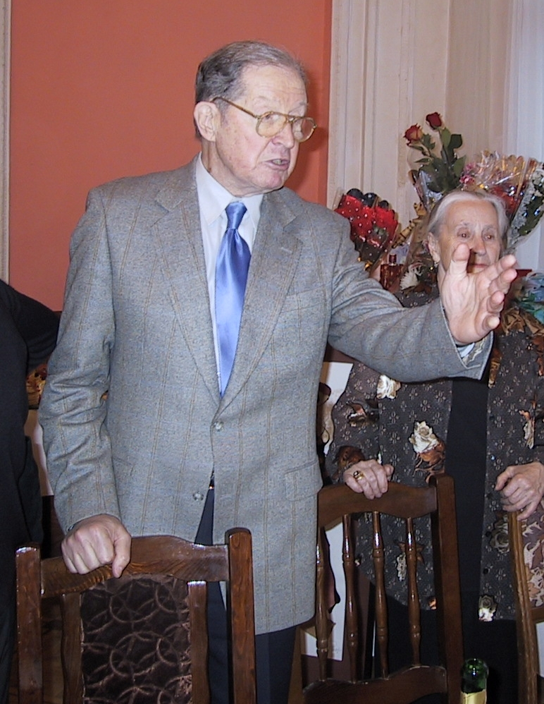 Juri Averbakh celebrating his 80th birthday